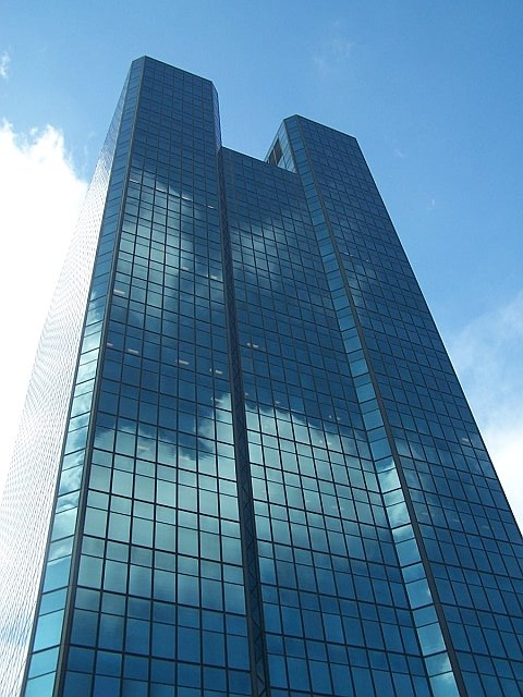 Photographer: Wpktsfs Where: One SeaGate, Toledo, Ohio Description: One SeaGate, tower facing south, took picture facing north. Date: Saturday, March 24, 2007 DISCLAIMERS: Please, as a courtesy, E-mail me where you are using the picture, and what for.